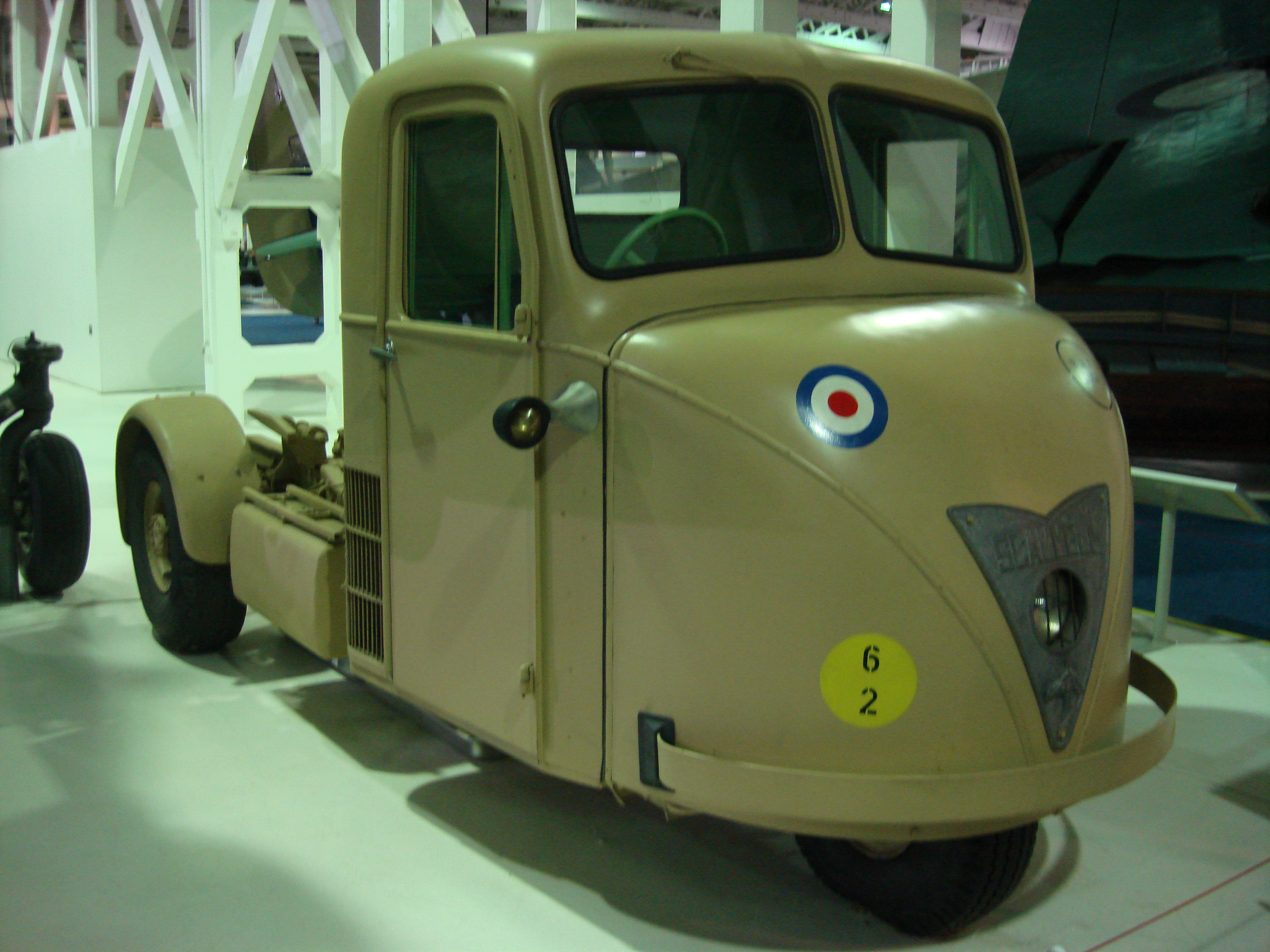 Scammell Scarab Mk6 at the RAF Museum, london